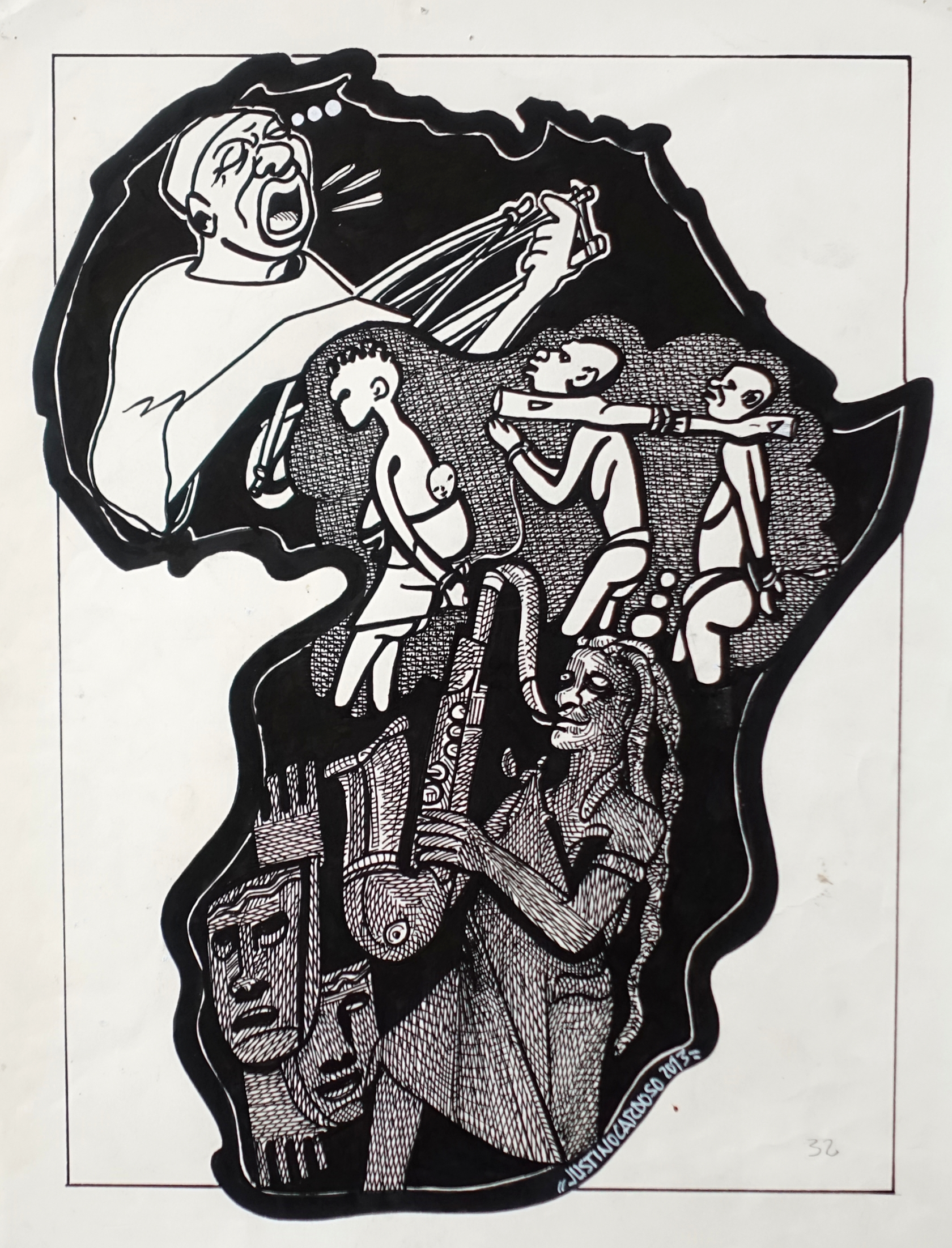 Justino António Cardoso 'A música da alma' (2013)